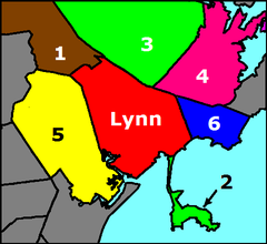 Lynn, MA and neighboring cities.